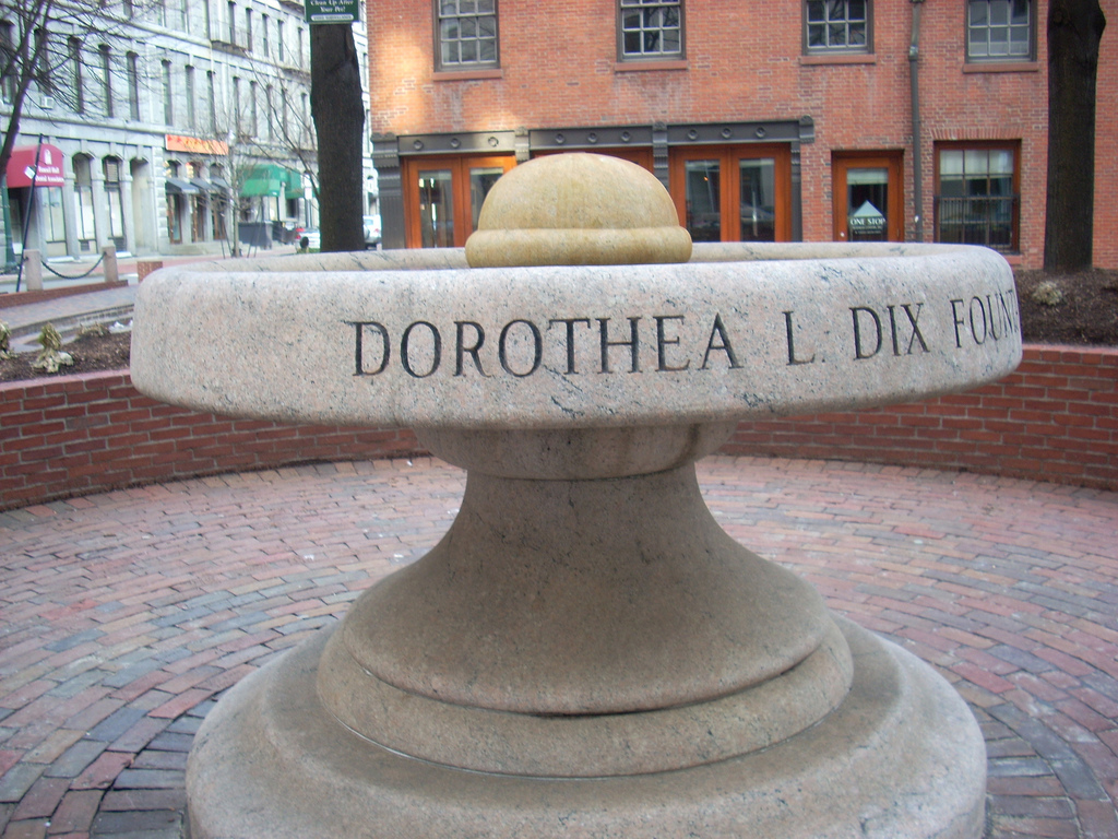 the Fountain for thirsty horses that Dorothea Dix gave to the city of Boston to honor the Massachusetts Society for the Prevention of Cruelty to Animals, located at the intersection of Milk and India Streets.